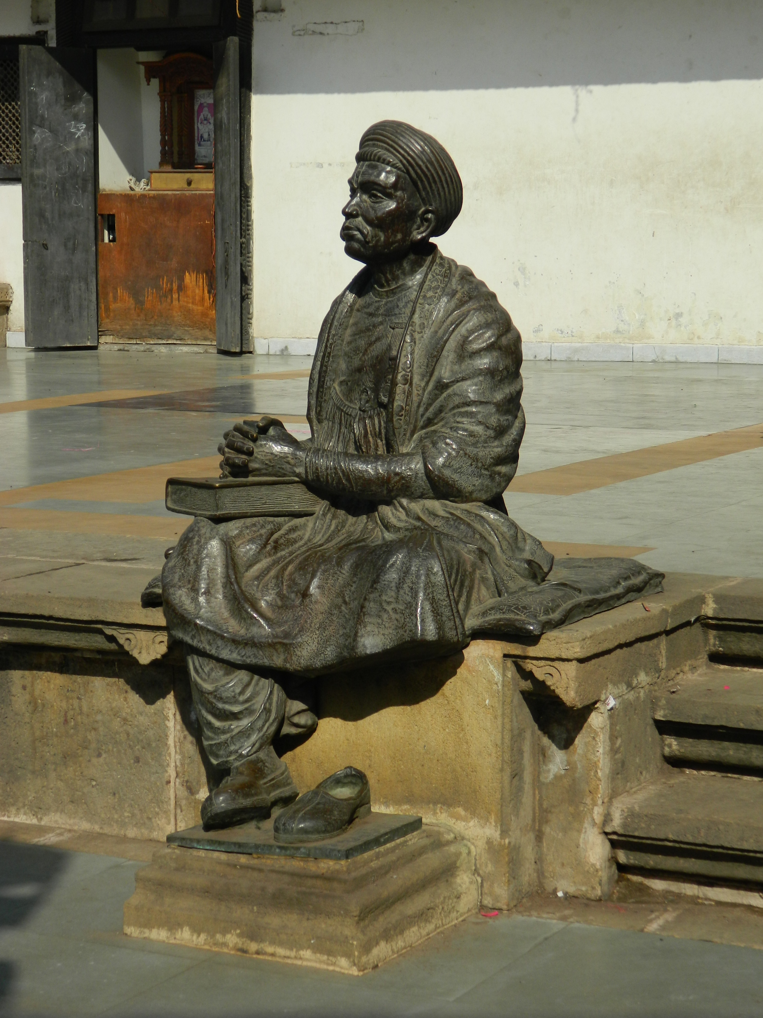 Famous Gujarati Poet Dalpatram